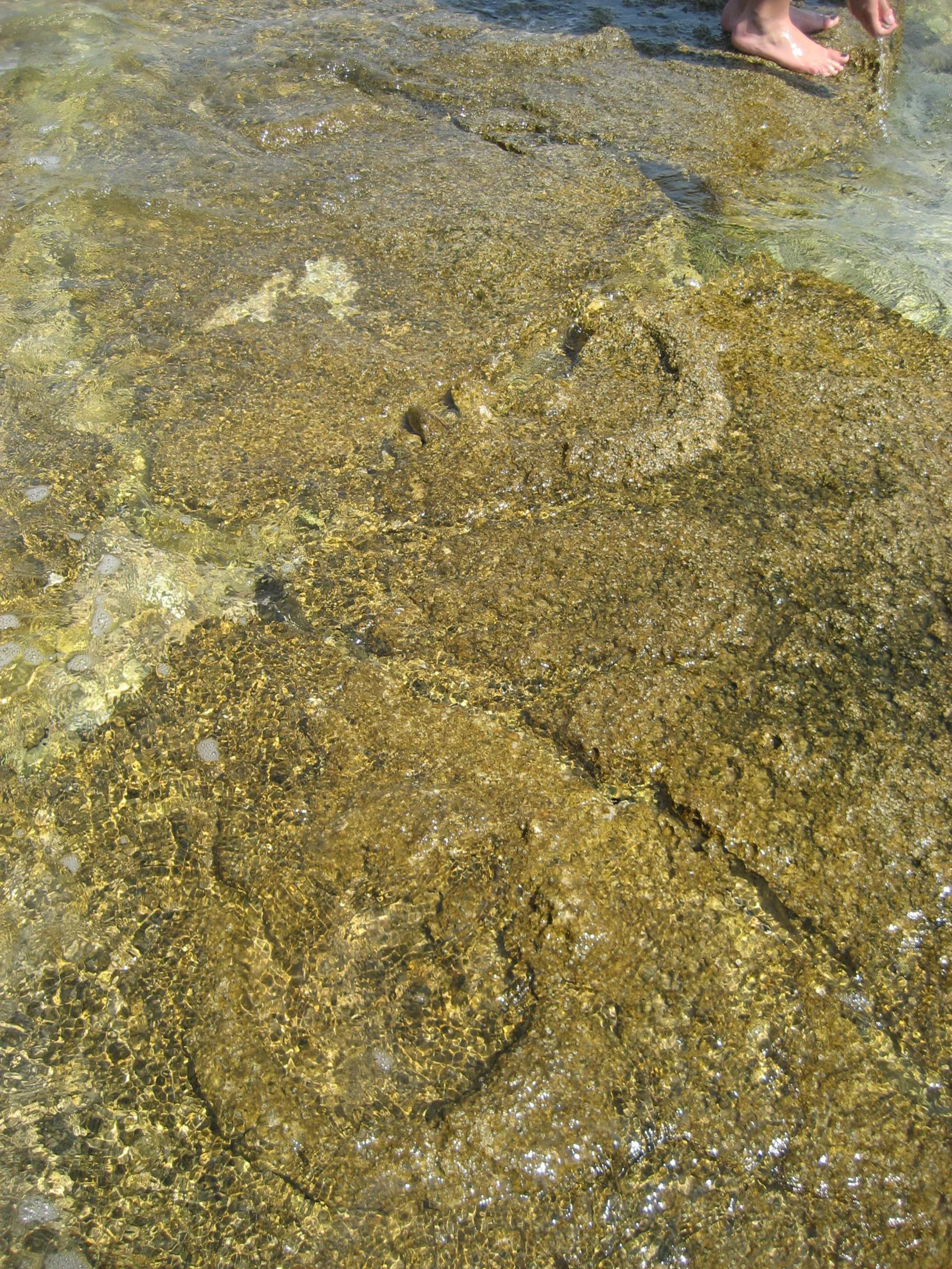 Dinosaur Fotsteps, Beach near Rovinj in Croatia